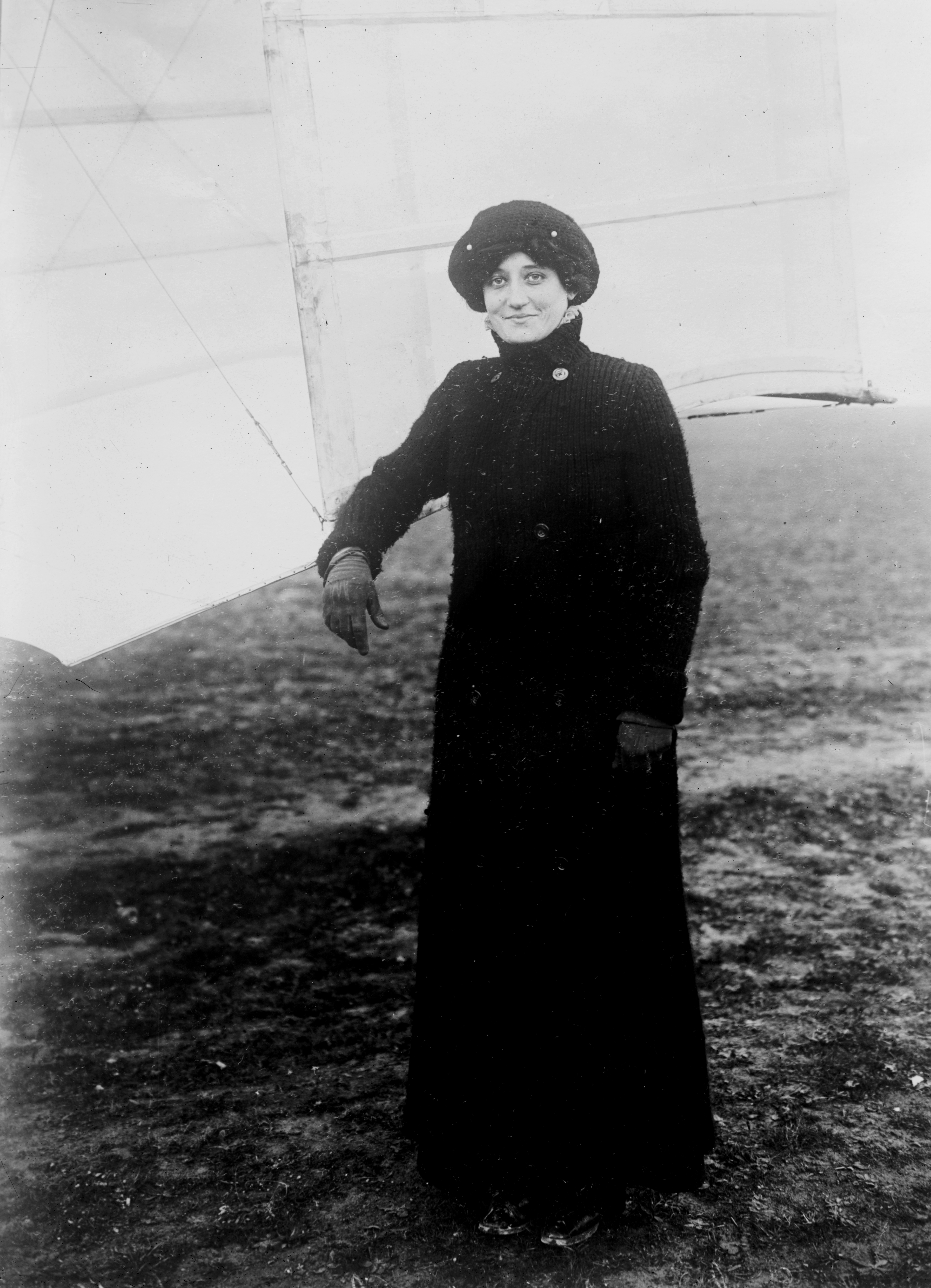 Raymonde de Laroche (1886 – 1919) posing in front of the her plane.